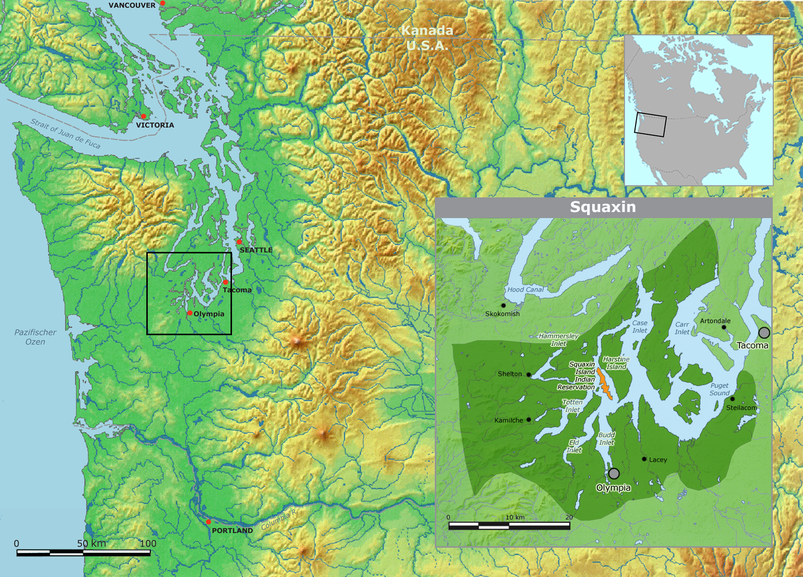 Map of traditional Squaxin tribal territory.